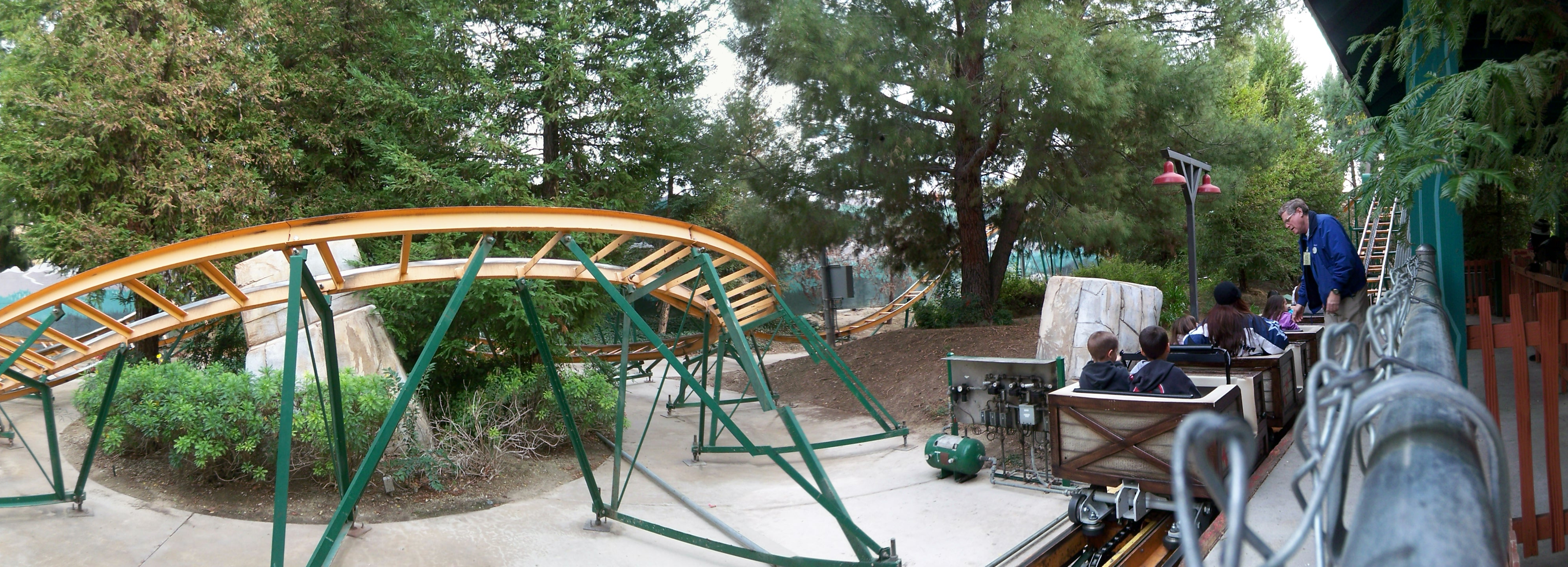 Panorama of the Canyon Blaster rollercoaster at Six Flags Magic Mountain, Valencia, California.